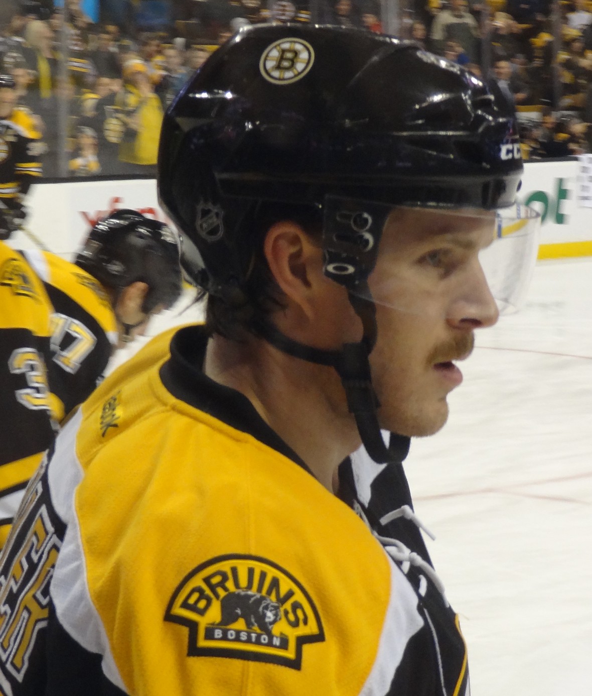 Kevan Miller at pre-game warm-ups prior to the Boston Bruins vs Carolina Hurricanes at TD Garden, Boston, MA on November 23, 2013.